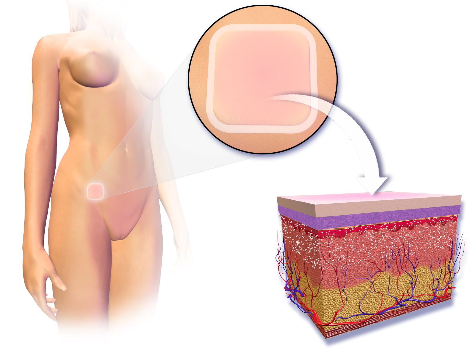 Birth Control Patch See a full animation of this medical topic.